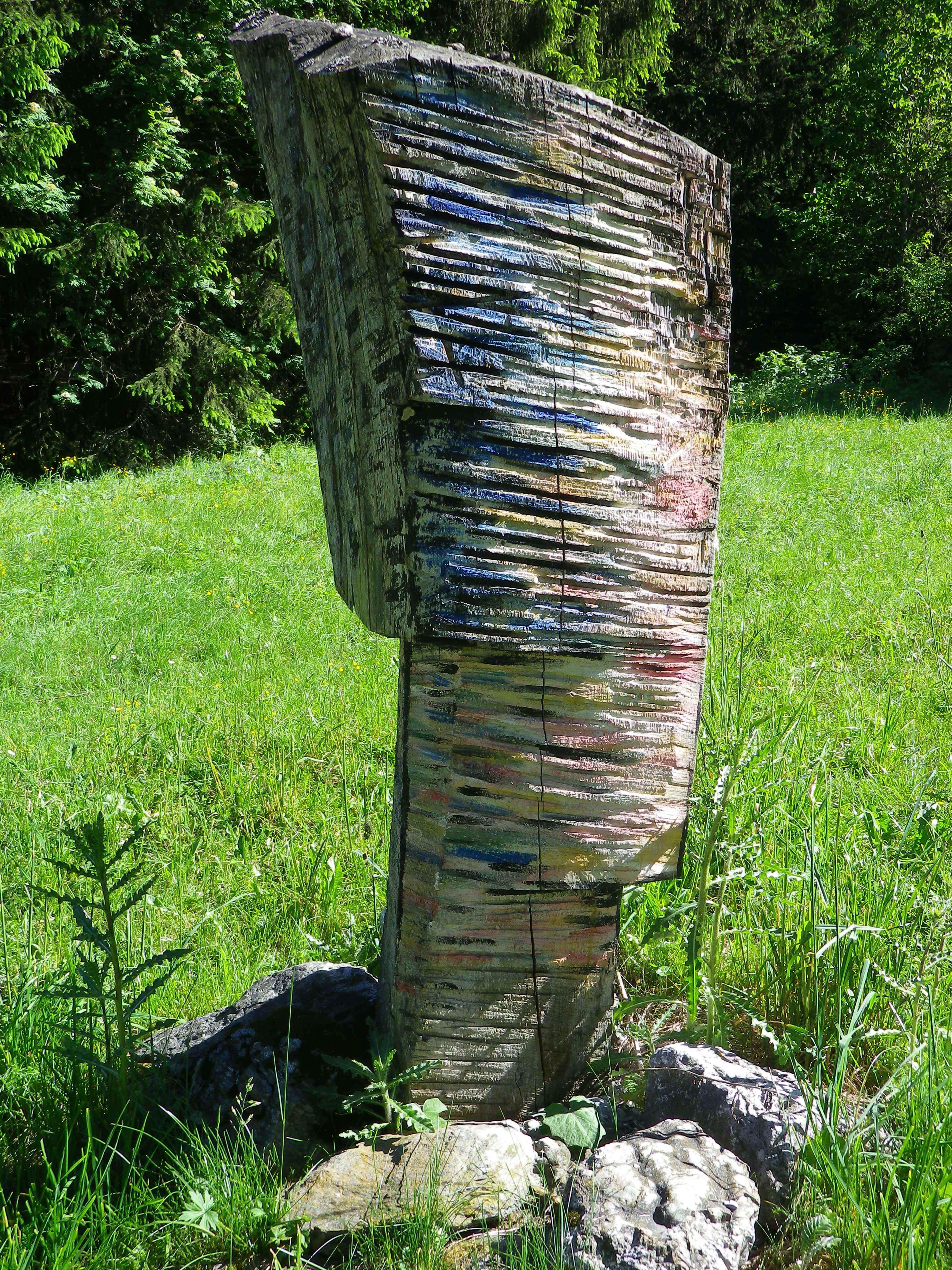 Wooden sculpture (head) by the artist Anton Baumgartner (h=200; w=70 cm), Skulpturenfeld Fuchsmoos Piller bei Fließ